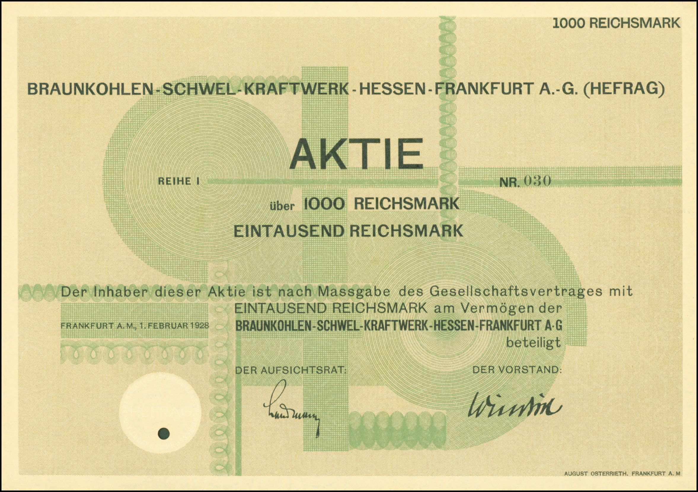 Share of the Braunkohlen-Schwel-Kraftwerk-Hessen-Frankfurt AG, issued 1. February 1928